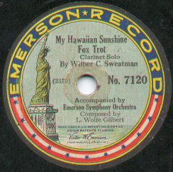 Label of a 7-inch 1916 Emerson disc record, featuring ragtime and early jazz clarinetist Wilber Sweatman. "My Hawaiian Sunshine"